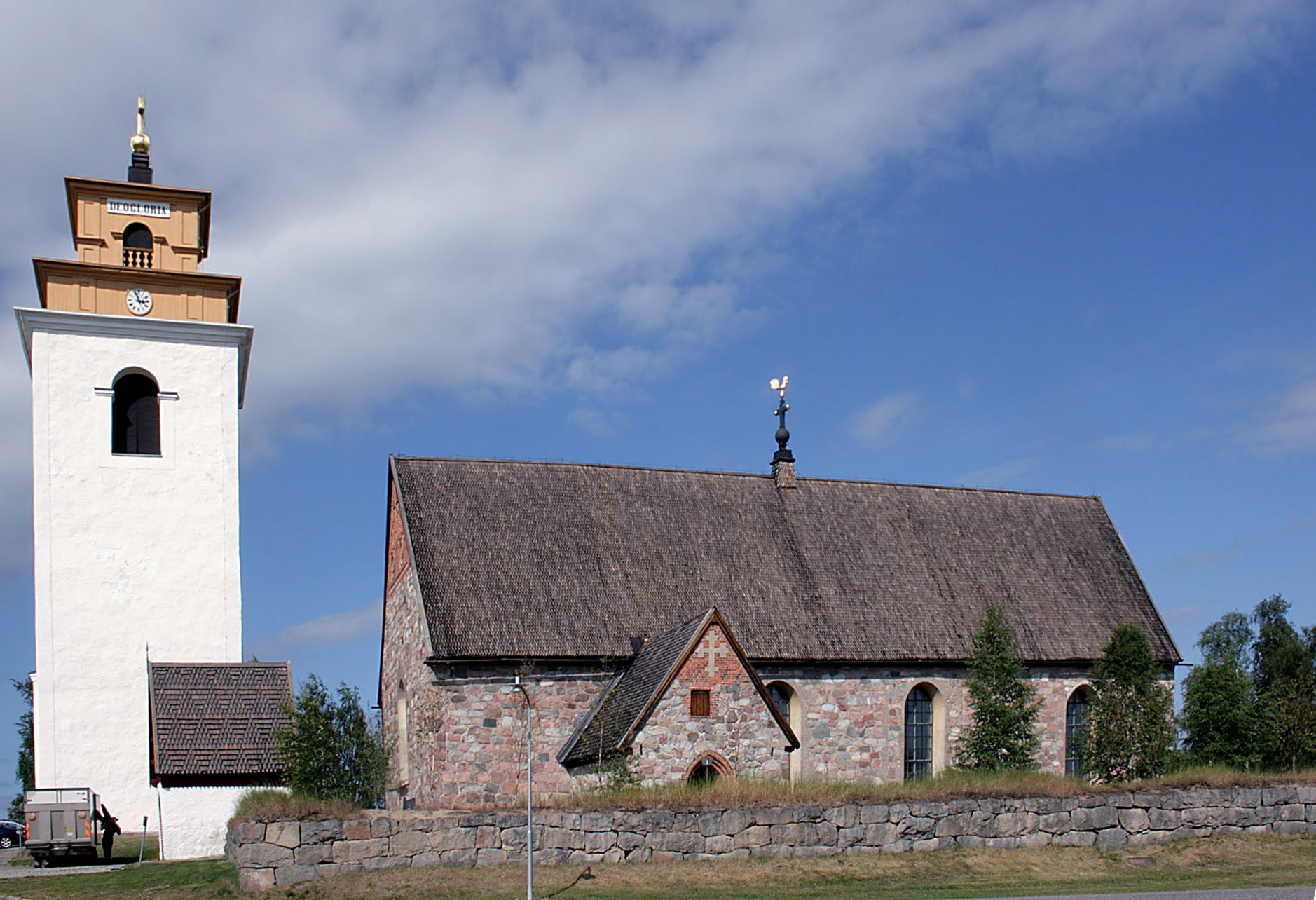 The church in the Swedish World Heritage Site Gammelstads kyrkby.